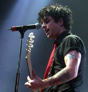 Billie Joe Armstrong, musician, primarily of Green Day. Photograph was taken in Cardiff during the American Idiot tour, using a Casio QV-R40 35mm.